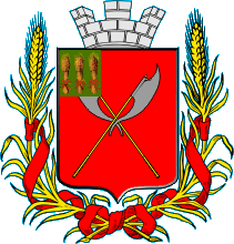 Coat of Arms of Mokshan, 1861